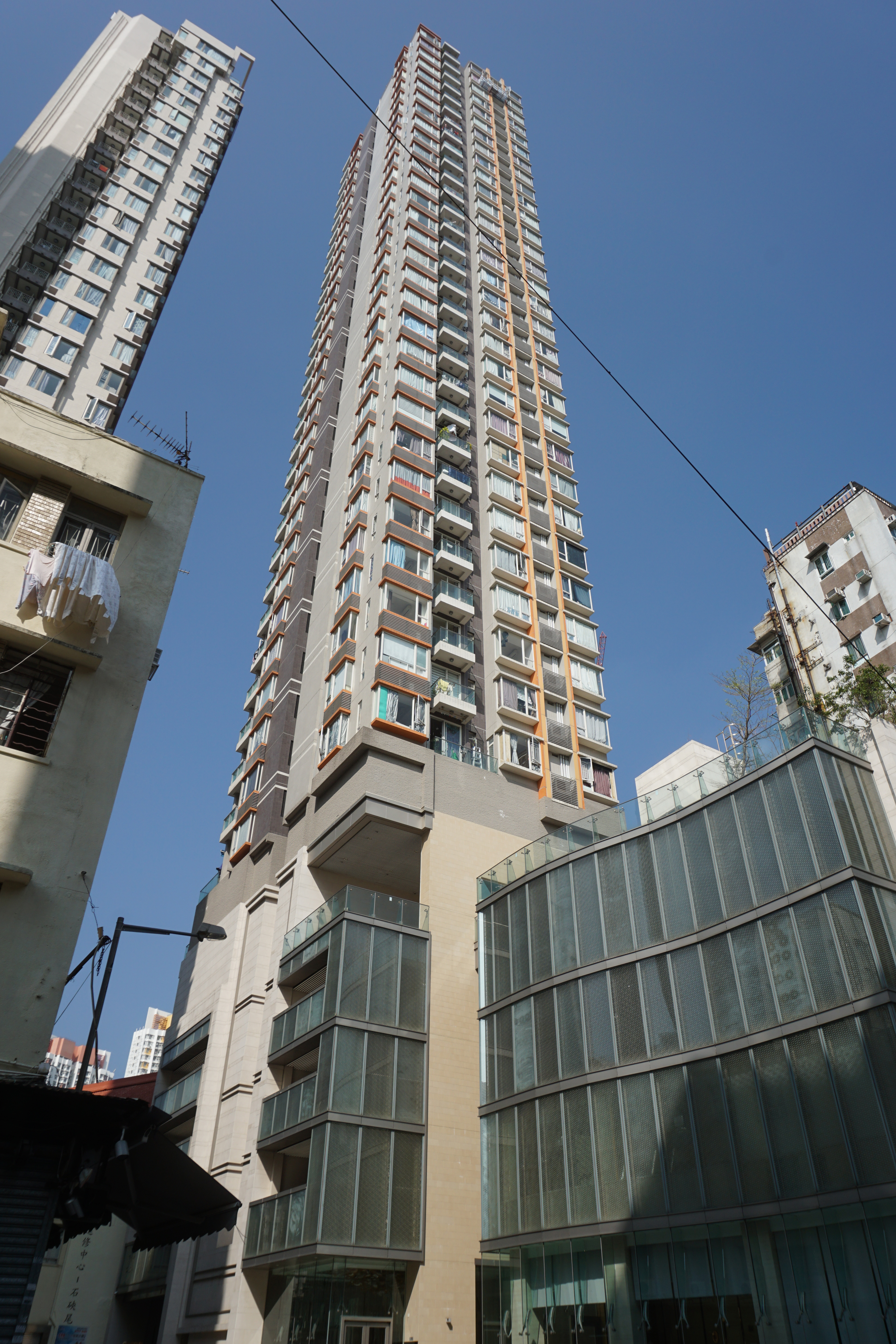 Gardenia in Sham Shui Po, Hong Kong.